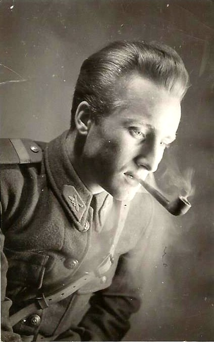 Tamás Pintér Hungarian writer in uniform. Katonaként az ’50-es évek elején (wikipedia)